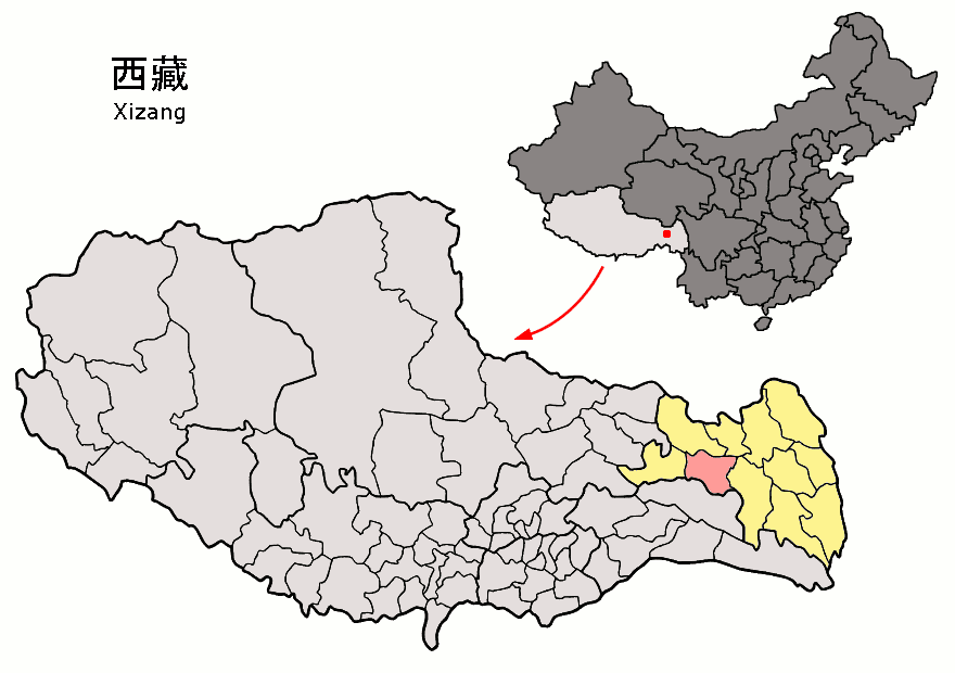 Location of Lhorong County (pink) and Qamdo Prefecture (yellow) within Tibet (Xizang) autonomous region of China